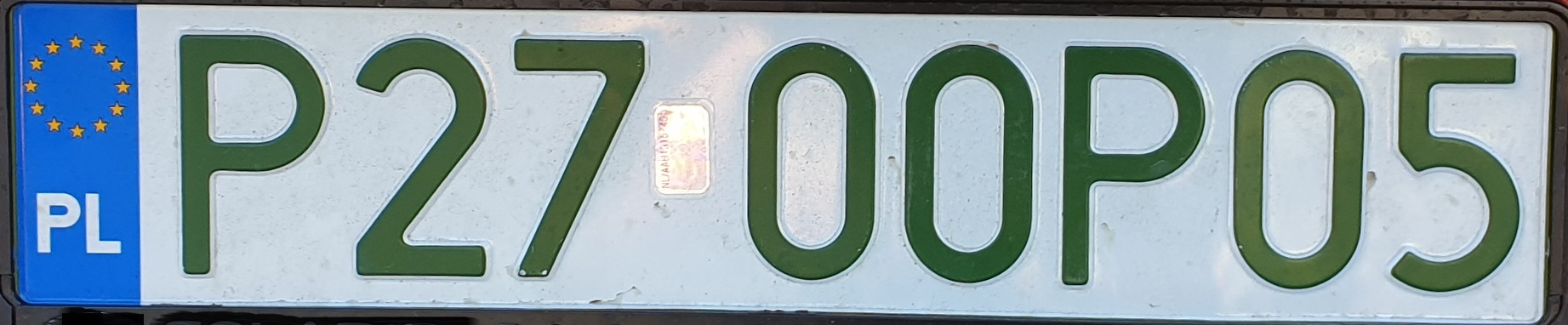 Polish professional license plate.